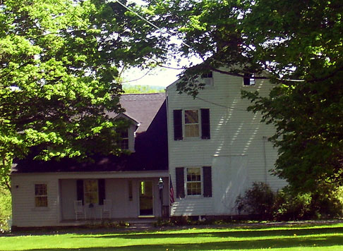 Photographed by Daniel Case 2007-05-14